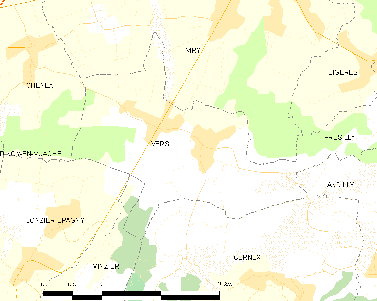 Map of French municipality Vers